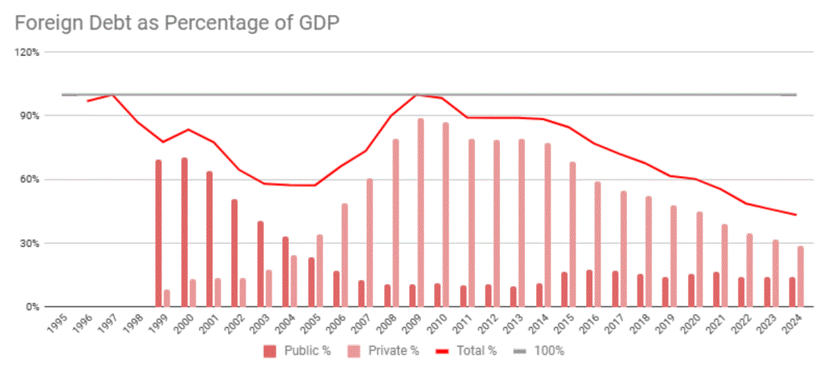 Annual Public and Private Foreign Debt (as percentage of Gross Domestic Product)